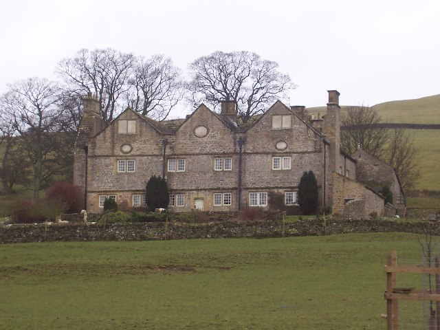 Braithwaite Hall. National Trust Property, I believe, but not for general visitation. Splendid position high on the southern flanks of Lower Coverdale. Another contributor has written to say bed and breakfast is available here.